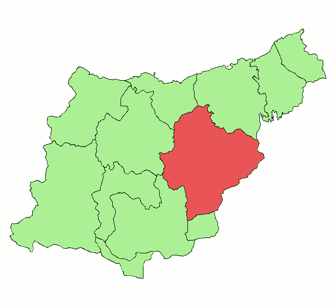 Tolosaldea region in the province of Gipuzkoa